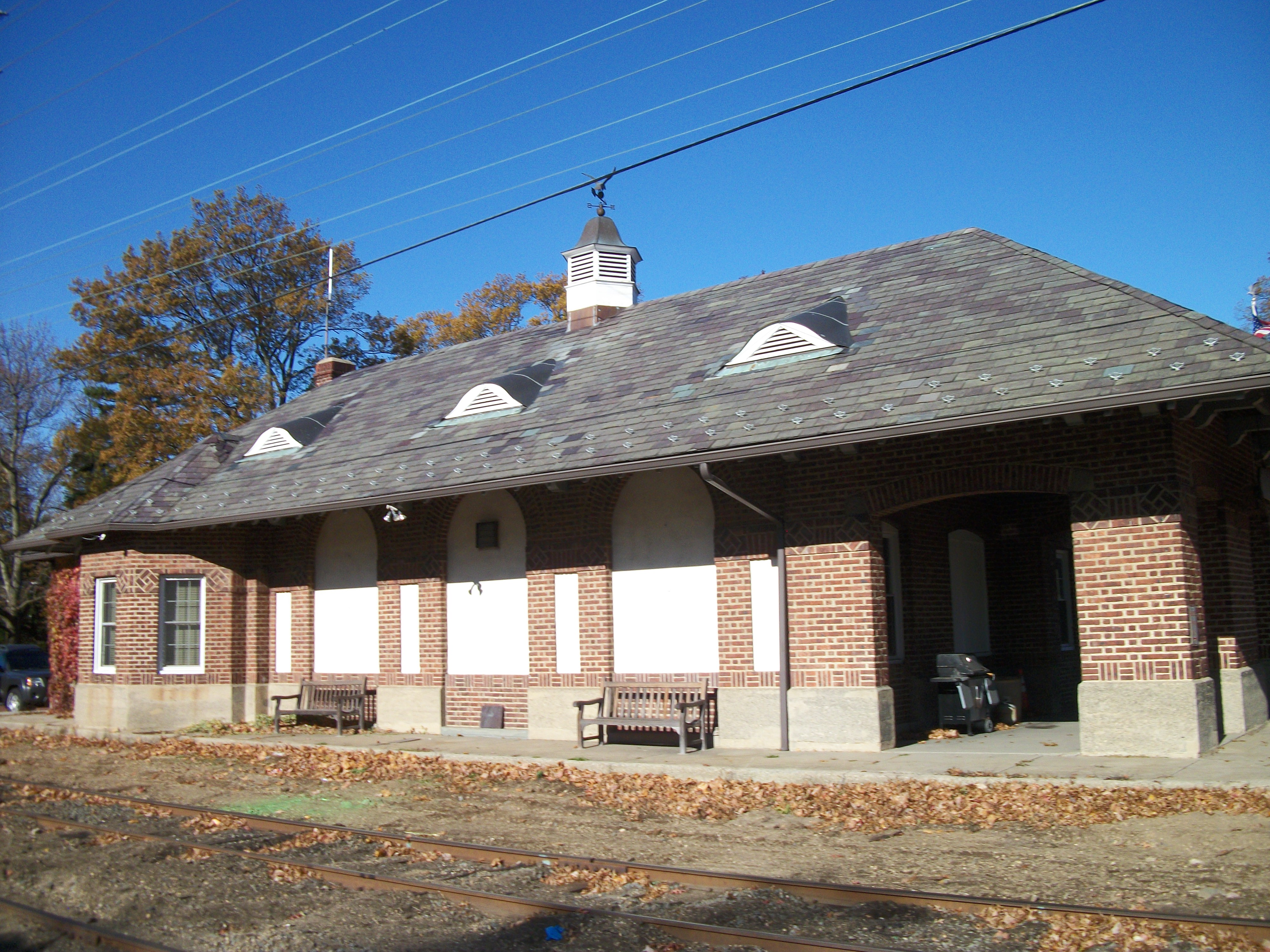 The former Clinton Road Long Island Rail Road station along the Garden City-Mitchel Field Secondary in Garden City, New York. The station originally served the Central Branch of the Long Island Rail Road and is now Garden City Fire Department Station Number Three. This view is trackside.